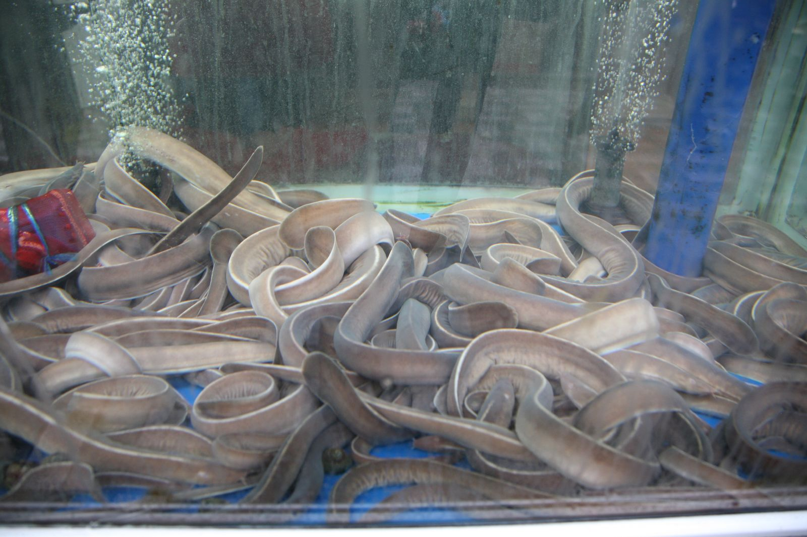 A view of a Busan, South Korea